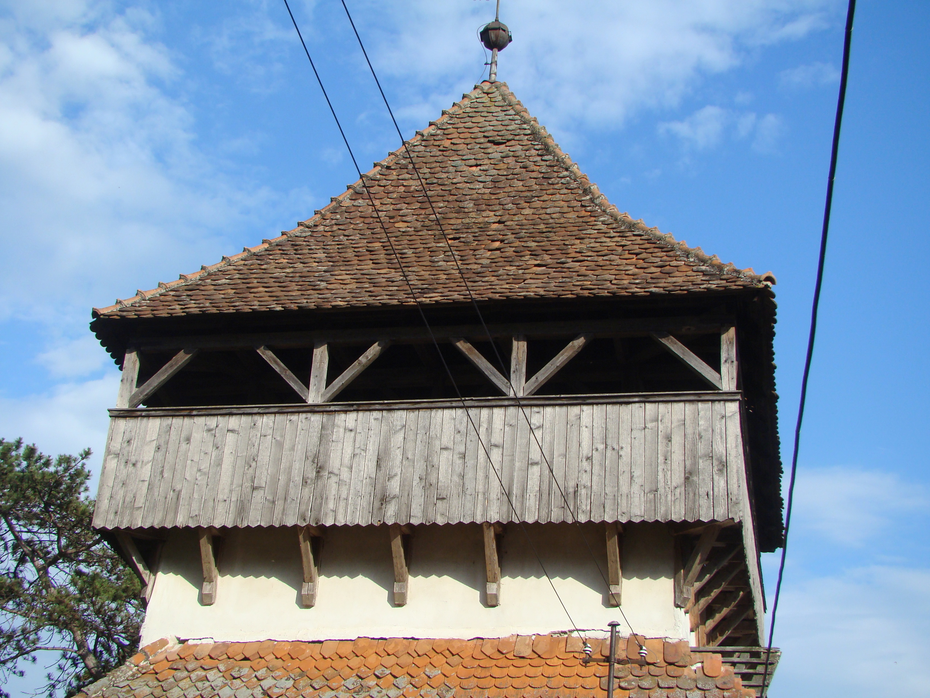 Fortified church in Ungra, Braşov County, Romania